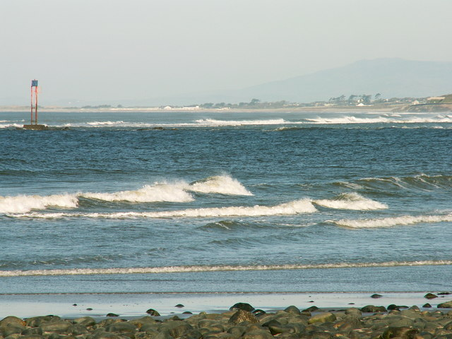 Beacon. Beacon on the north bank sand bar off the coast at Fairbourne